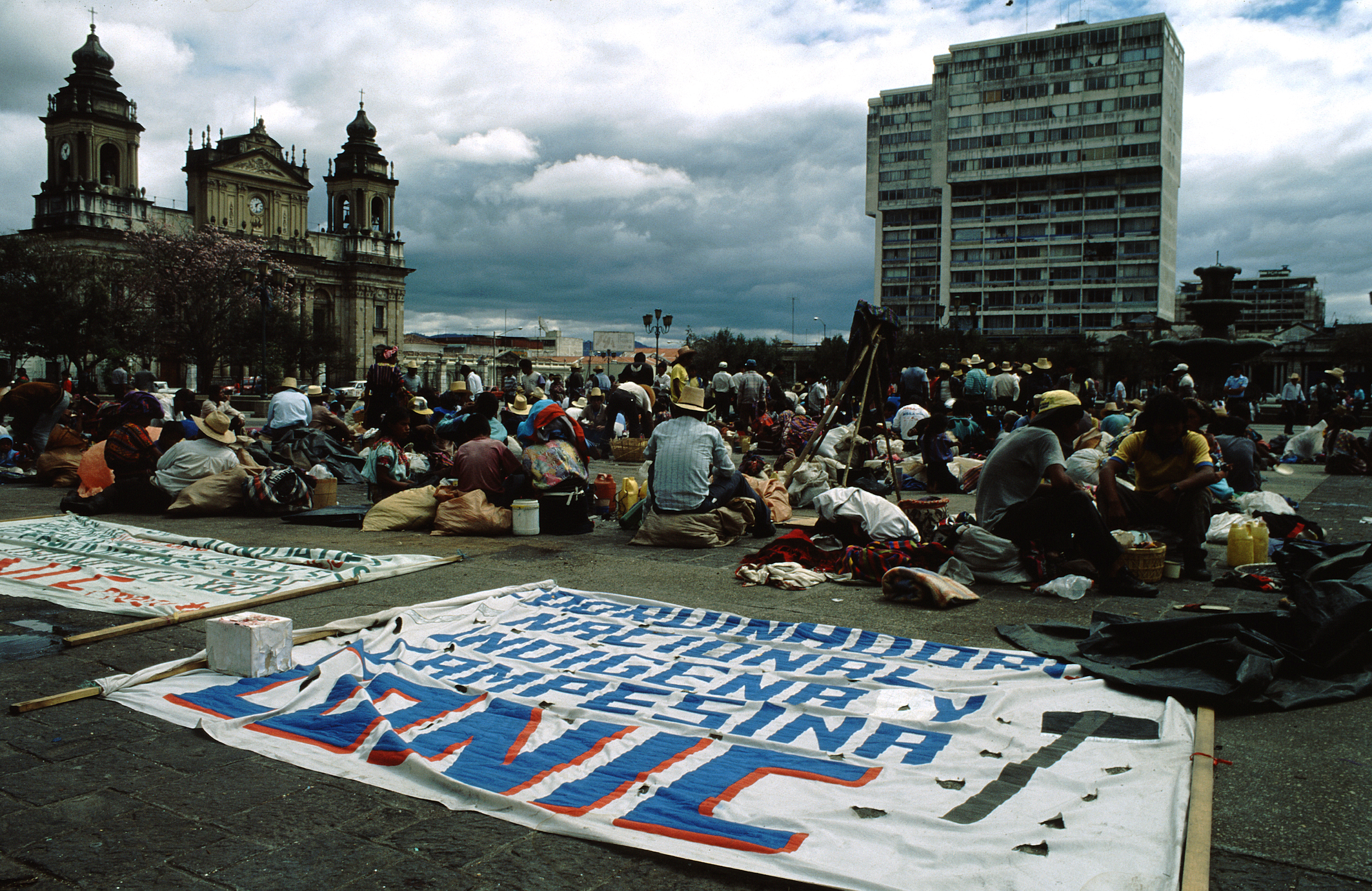 Demonstration of indigenous peasants in the Plaza Mayor in Guatemala City, January 1996.